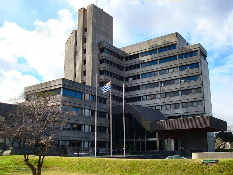 The Liberty Building at the intersection of avenues Luis Alberto de Herrera and José Pedro Varela, just across the Monument of Battle.